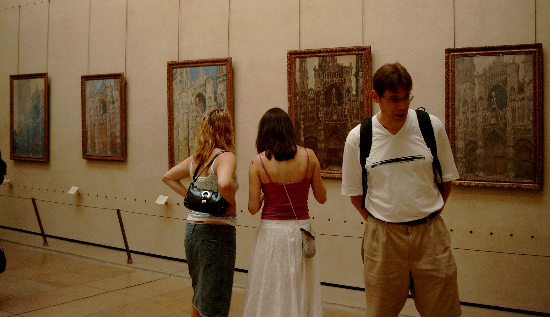 Musée d'Orsay in Paris, Claude Monet's paintings (photo taken by me)